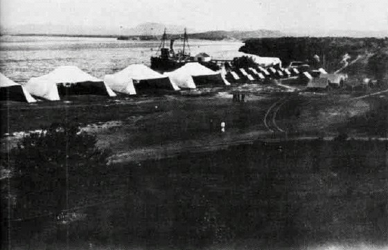 The U.S. Navy seaplane base at Fisherman's Point, Guantamo Bay, Cuba, in 1913.